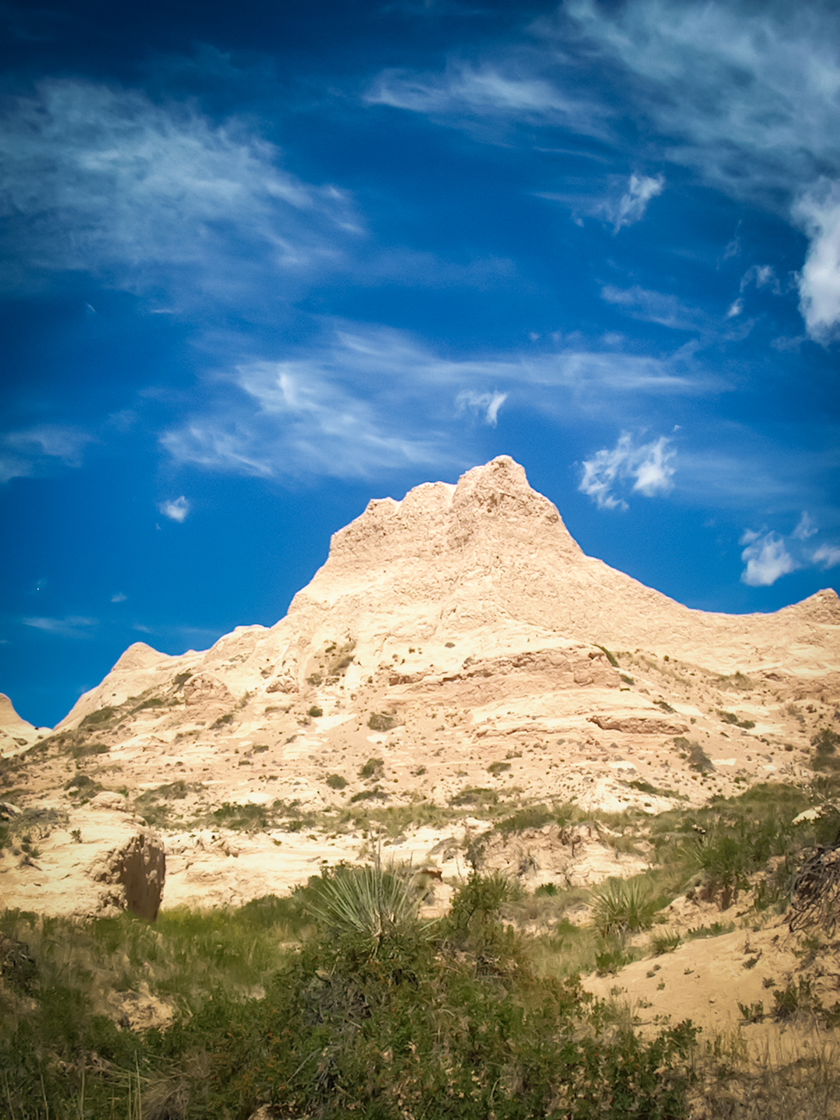 A butte near the Pawnee Buttes in Pawnee National Grassland, Weld County, Colorado.